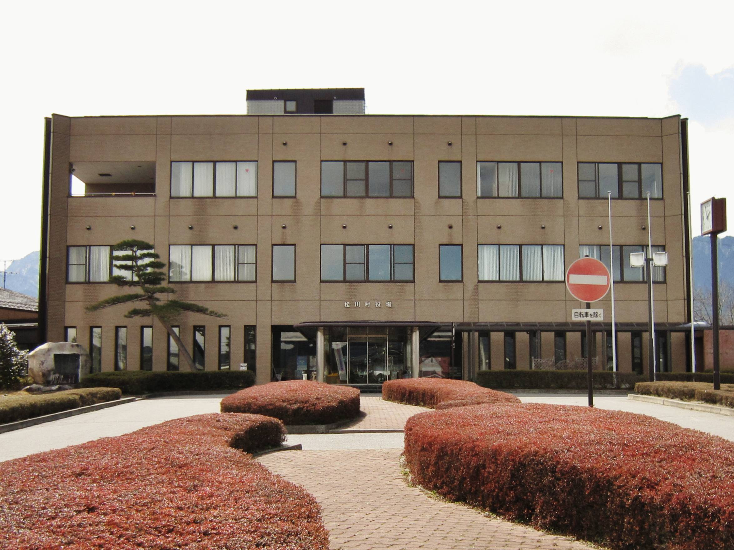 Matsukawa village office.